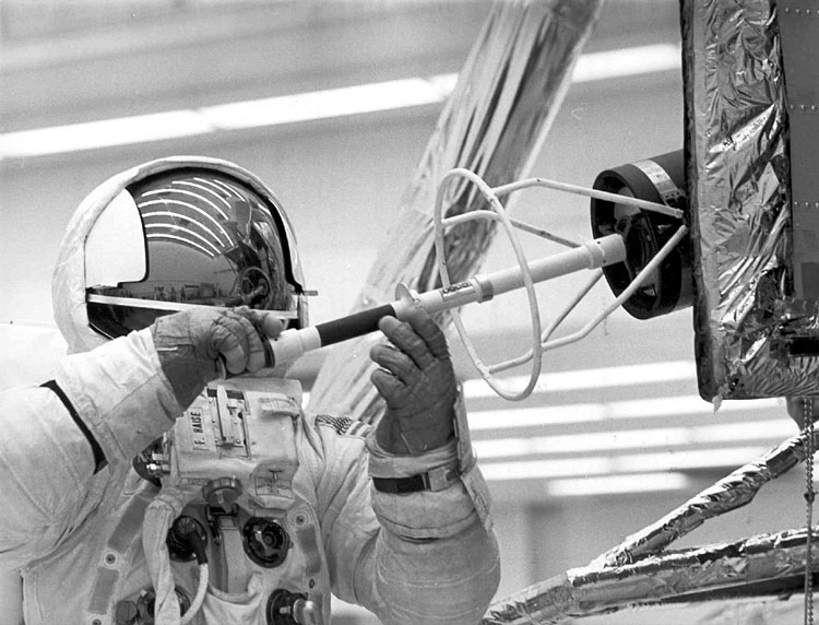 From the Apollo Lunar Surface Journal description (see link in "Source"), "Fred Haise extracts the fuel element for the SNAP-26 RTG from its cask mounted on the side of the LM. 3 February 1970. Photo filed Scan by Frederic Artner. Image no. A13-70-H-103